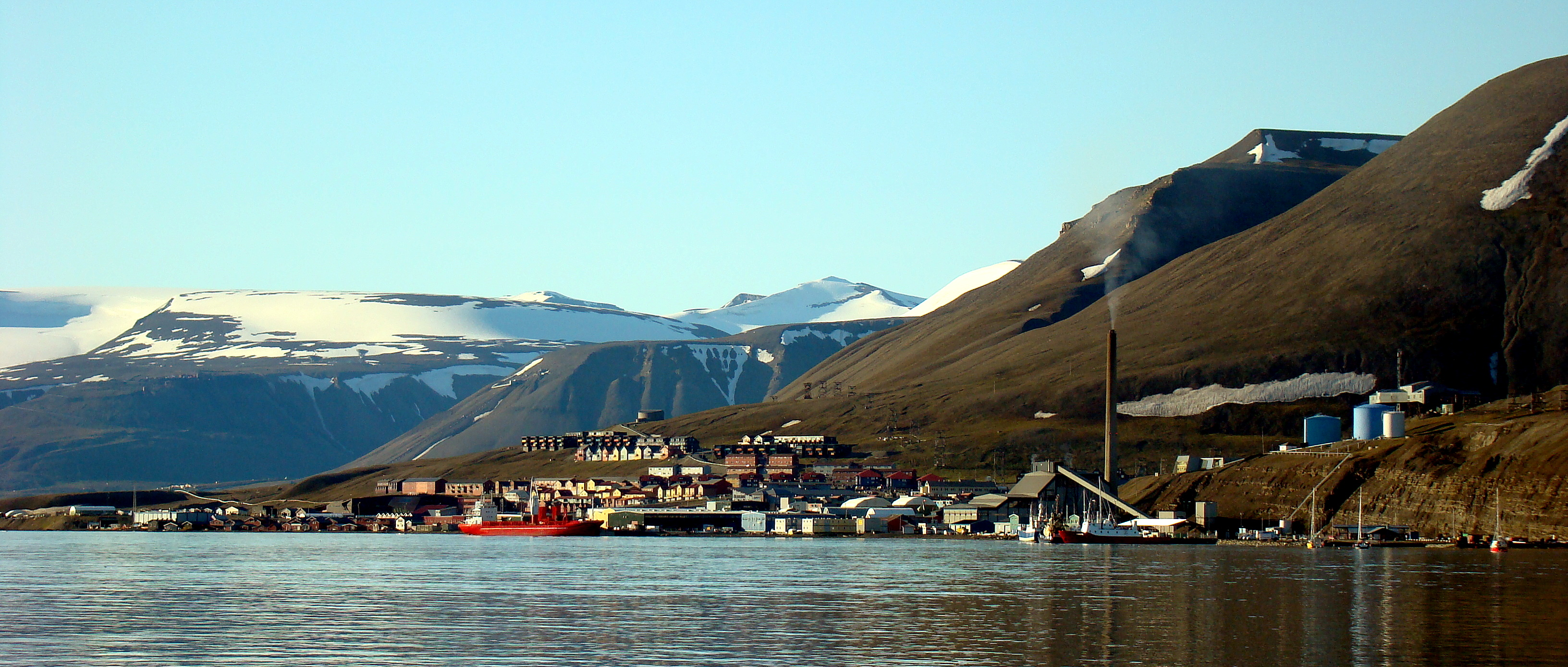 Longyearbyen, Spitsbergen, Svalbard